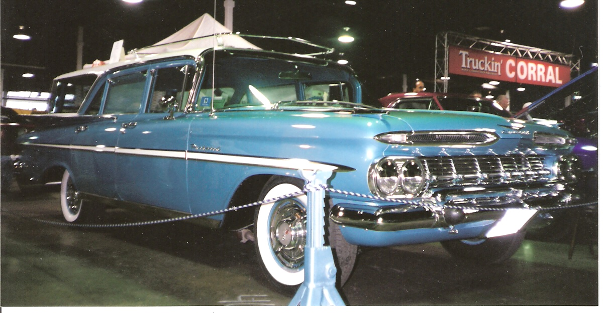 1959 Chevrolet Parkwood station wagon I photographed at Bayside Exposition Center in Boston, Massachusetts.